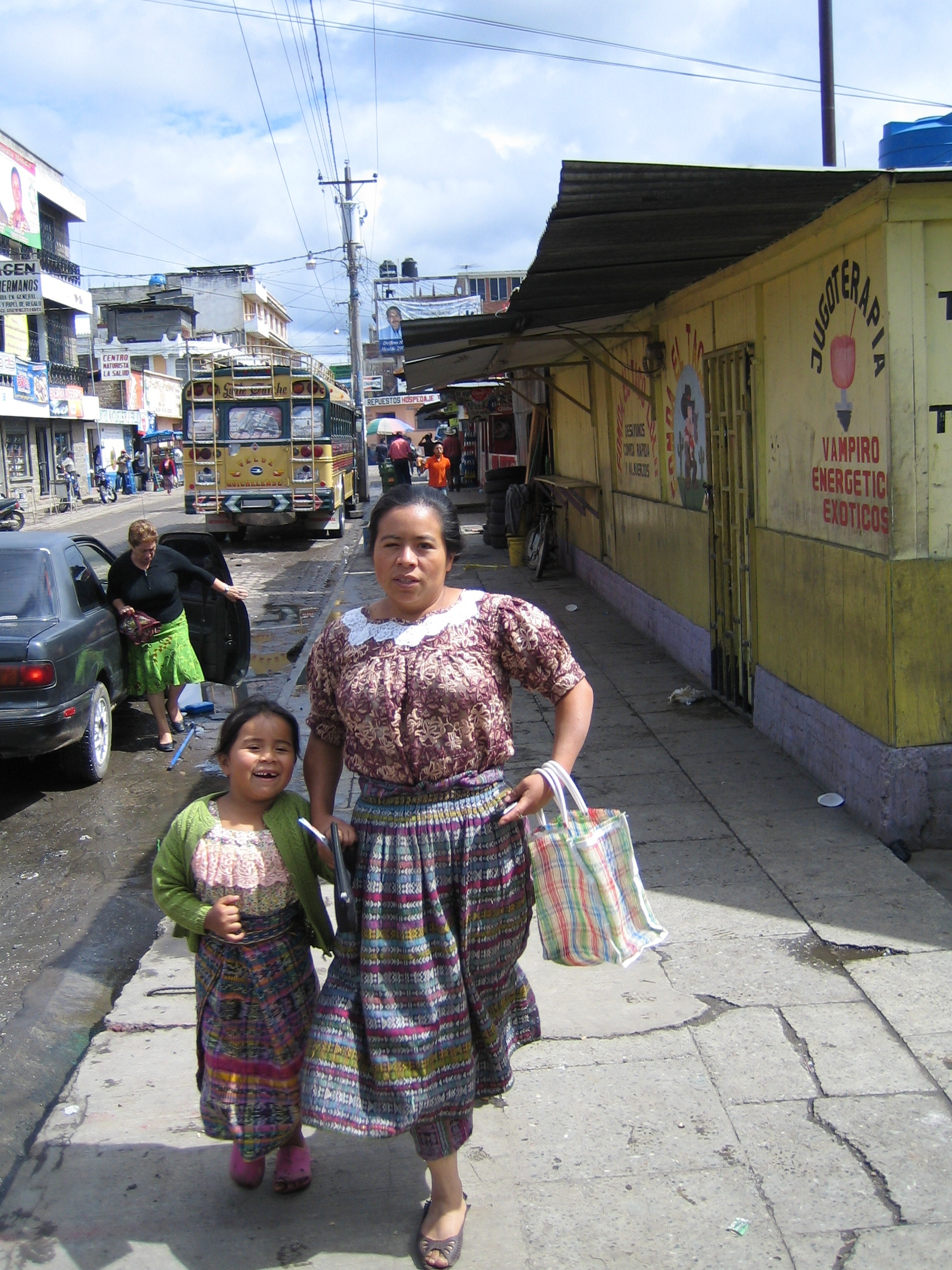 Mom and daughter running for a bus in Chiché, El Quiché department, Guatemala.